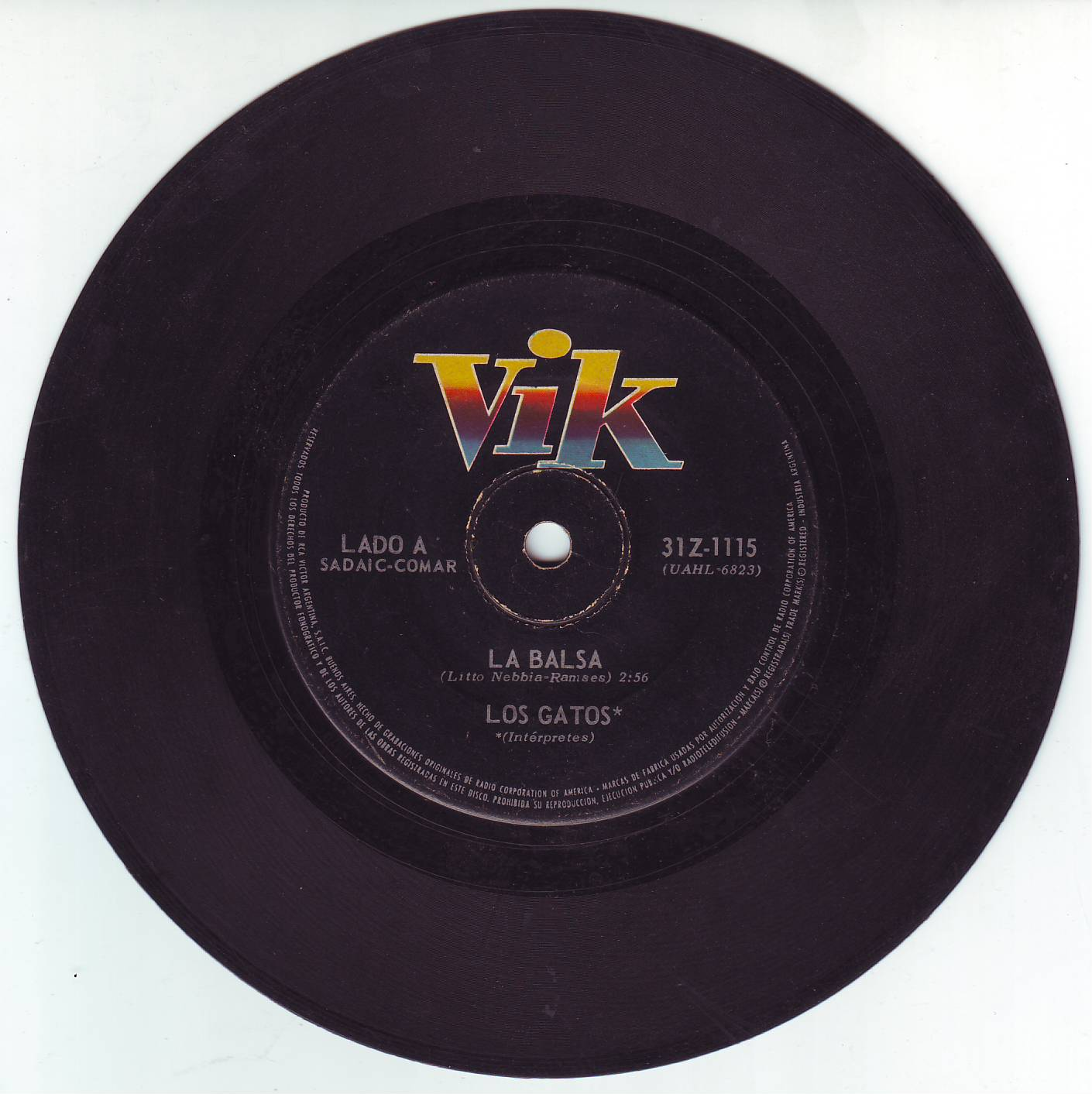 Escaneo del disco simple "La balsa"